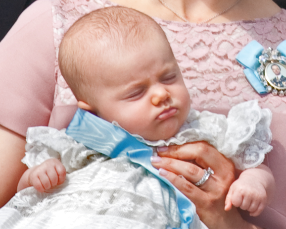 Princess Estelle Silvia Ewa Mary immediately after her baptism in Stockholm Sweden May 2012